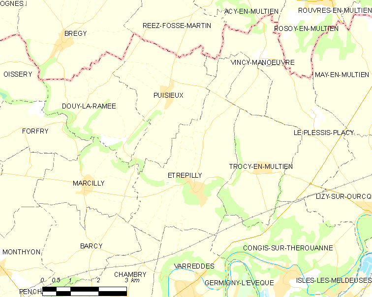 Map of French municipality Étrépilly